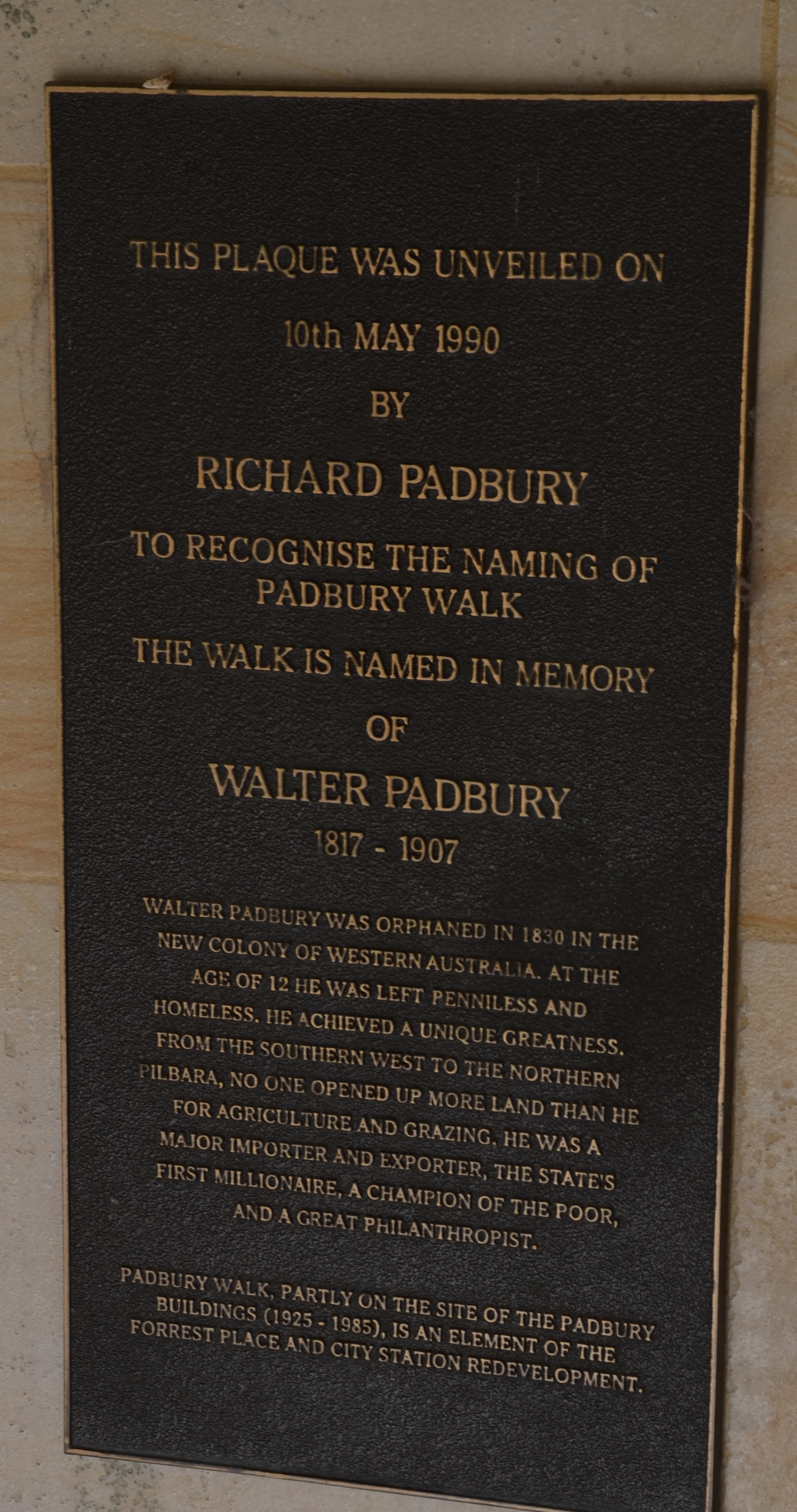 Plaque about Padbury on Padbury Walk, Murray Street, Perth